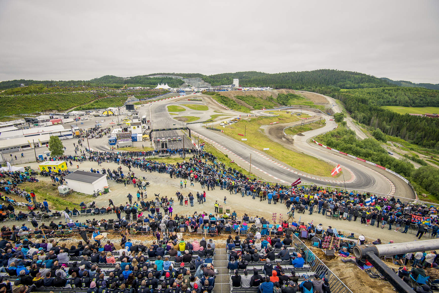 2018 FIA World Rallycross Championship // Round 5, Hell, Norway // Credit: EKS Audi Sport